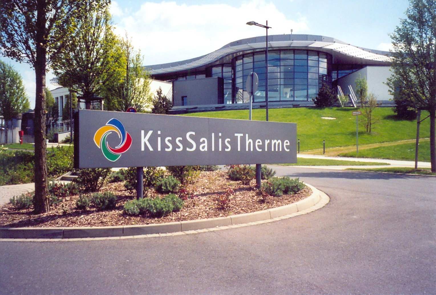 KissSalis, thermal bath at Bad Kissingen (Bavaria, Germany)